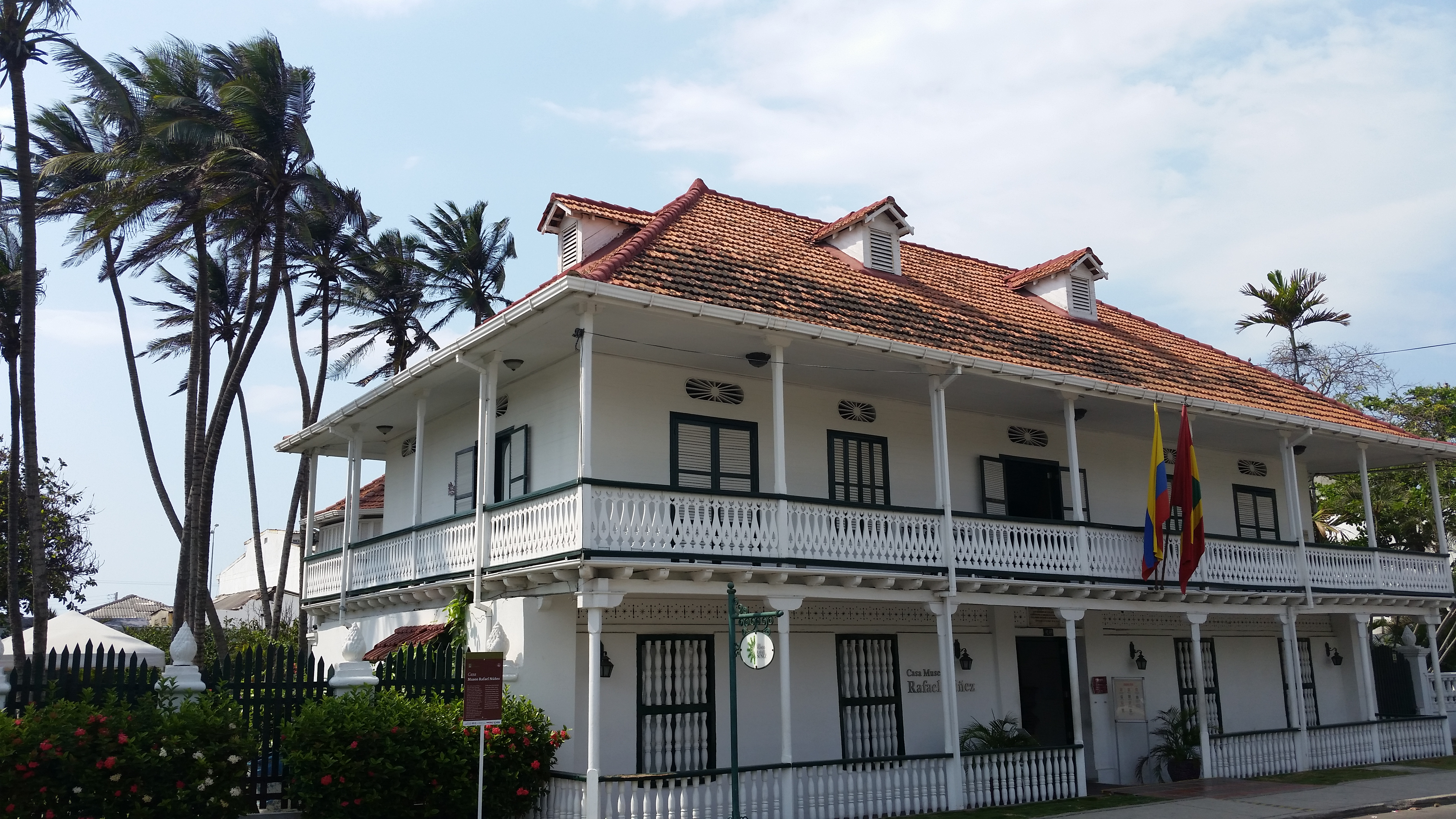 Rafael Nunez home